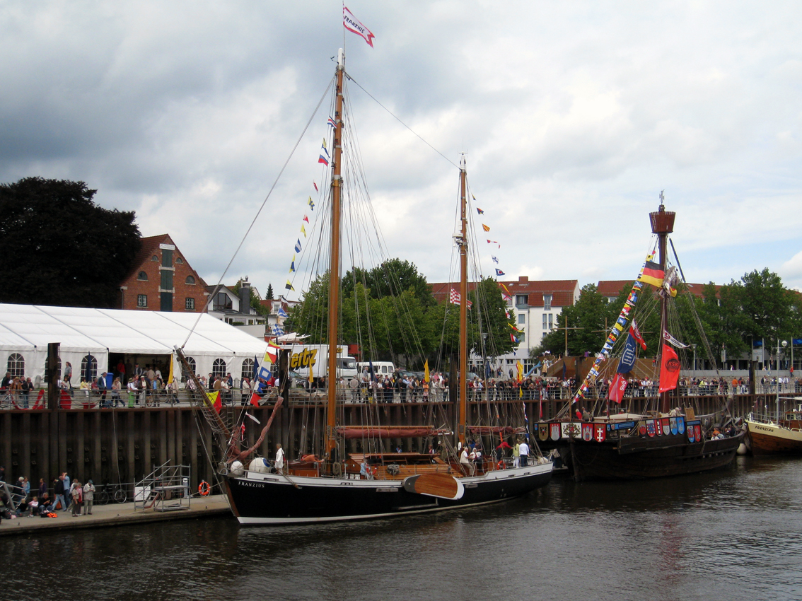 Vegesacker Hafenfest in 2008.